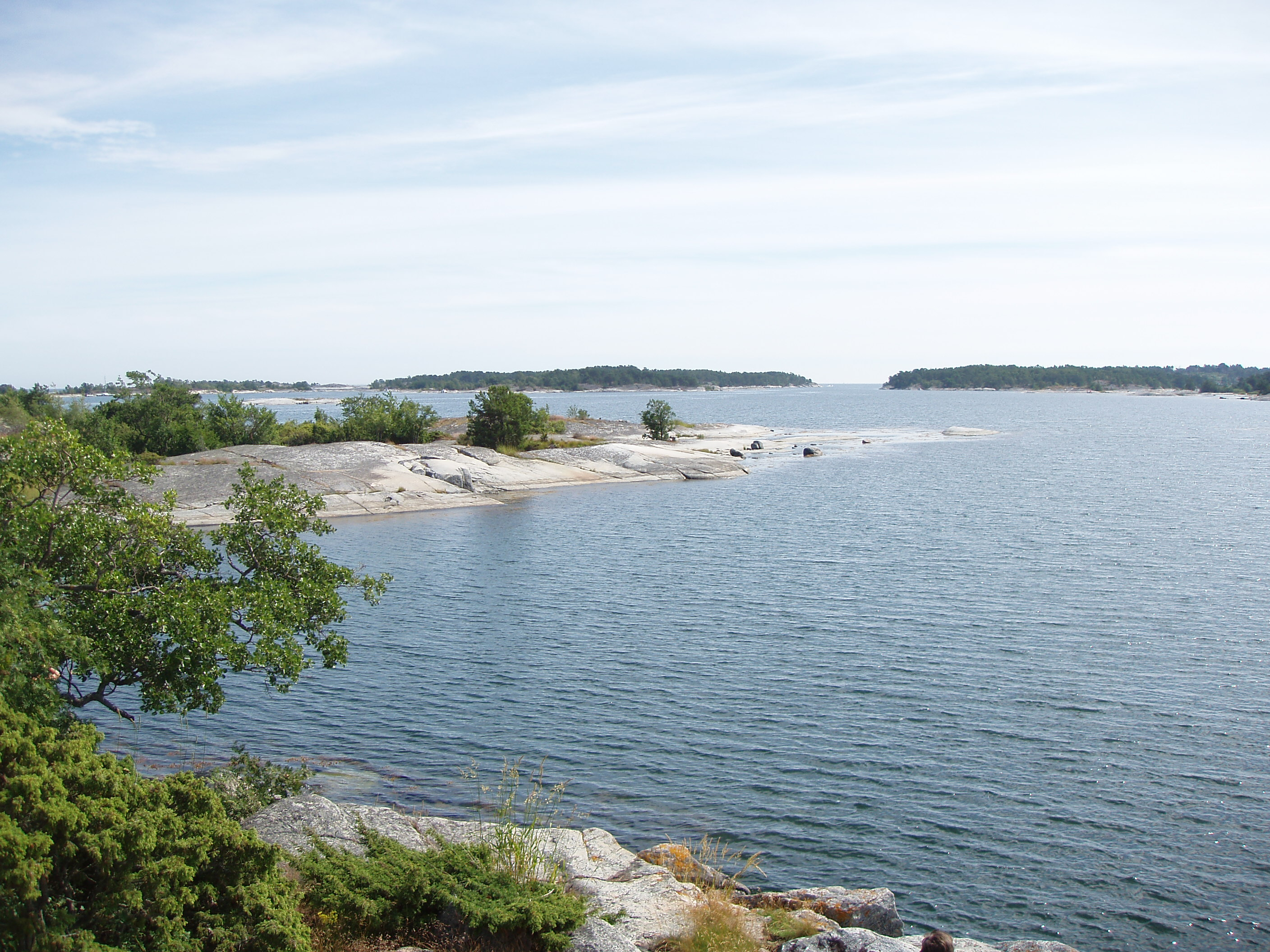 The south part of Ådskär, 5 nautical miles east of Möja in Stockholm archipelago. View towards east.